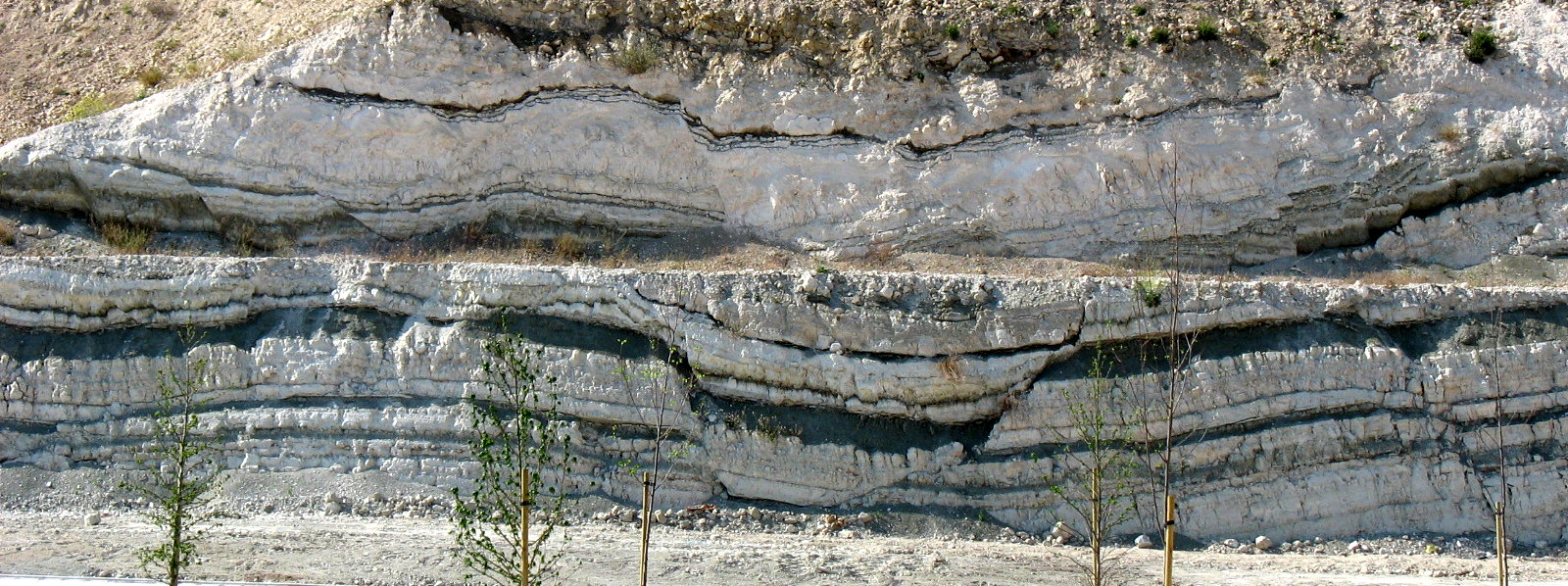 Minor normal faults. Sediments: argillaceous limestones (white) and marls with gypsum (dark). Cenozoic. Arganda del Rey, Madrid, Spain.